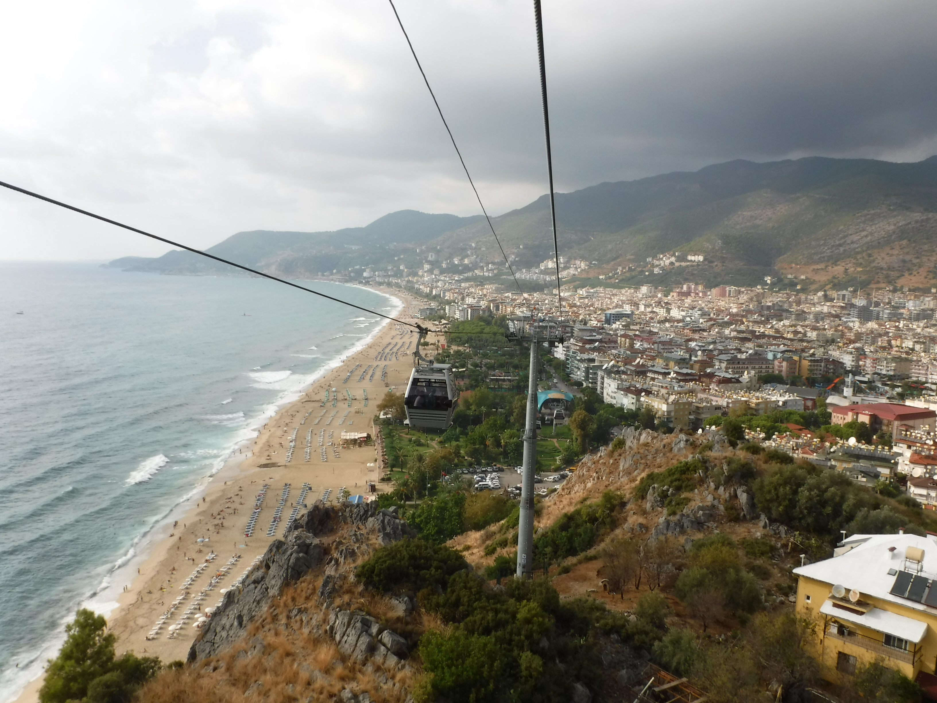 Alanya Teleferik between sea and castle - view to the Kleopatra and Damlataş Beaches